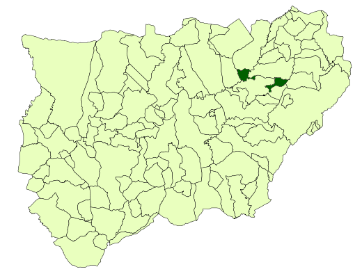 Situation of the municipality of Sorihuela del Guadalimar (Jaén, Spain).